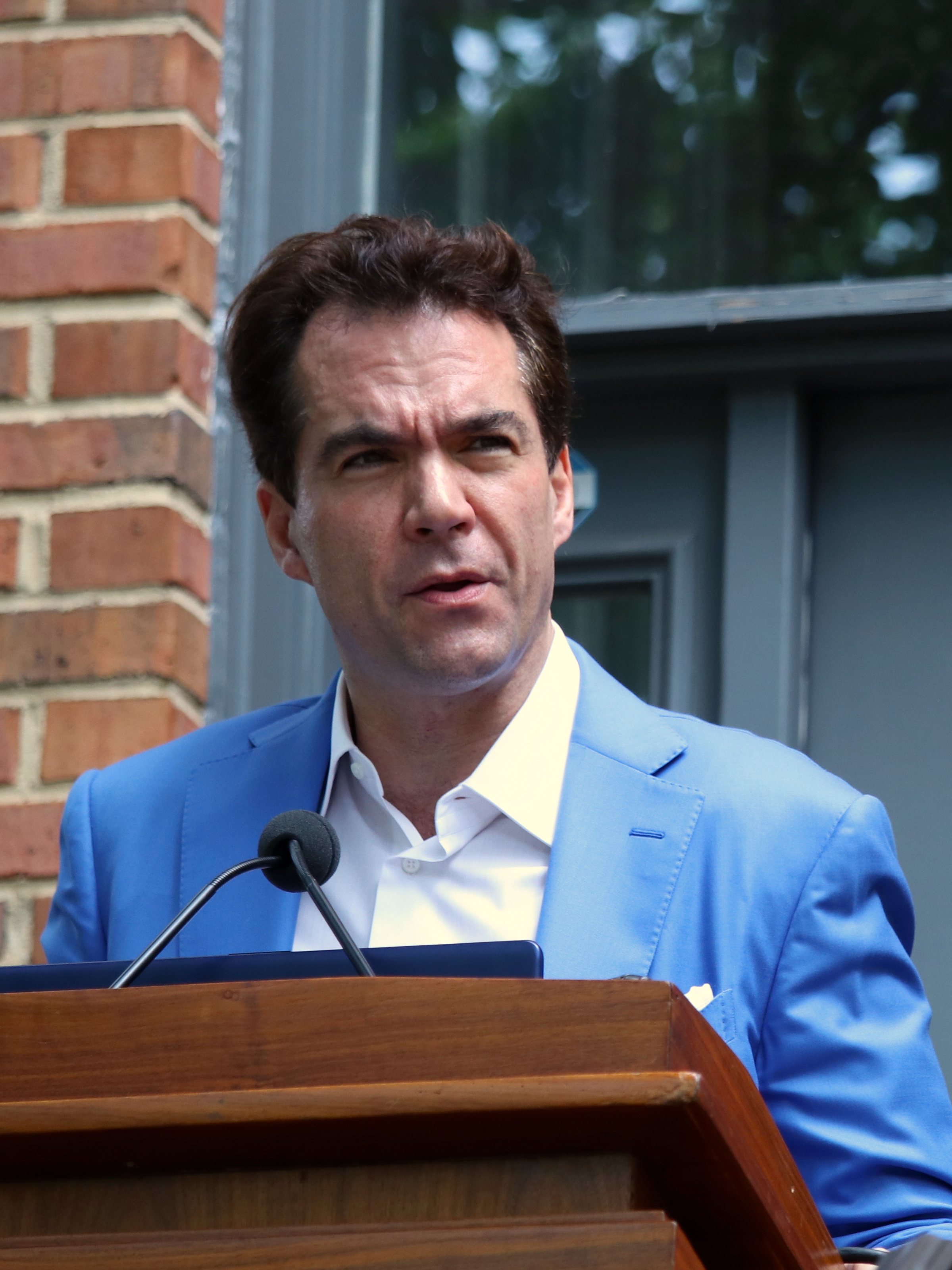 August 6, 2020 press conference by Jacob Wohl and Jack Burkman, denying allegations of kidnapping against Wohl by Merritt Corrigan (